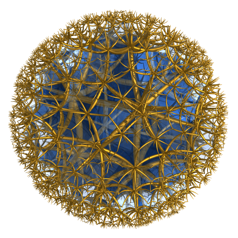 Hyperbolic great cubic honeycomb